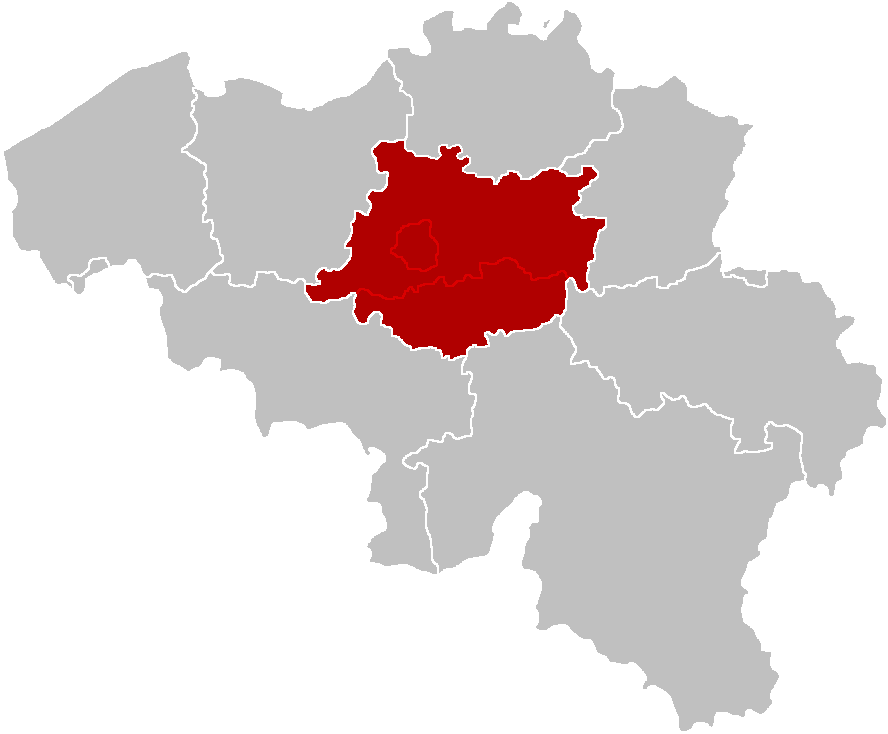 Map of Archbishopric of Mechelen-Brussels